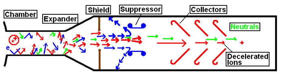 This is by no means a complete illustration of how direct conversion works. This is a basic direct converter, shown here are the four basic steps. First, the plasma is made to move straight using a magnetic field, next the converter is insulated from fields elsewhere inside the machine, next, the electrons are suppressed and finally, the ions are separated by energy using an electric field. I made this and I offer freely to wikipedia